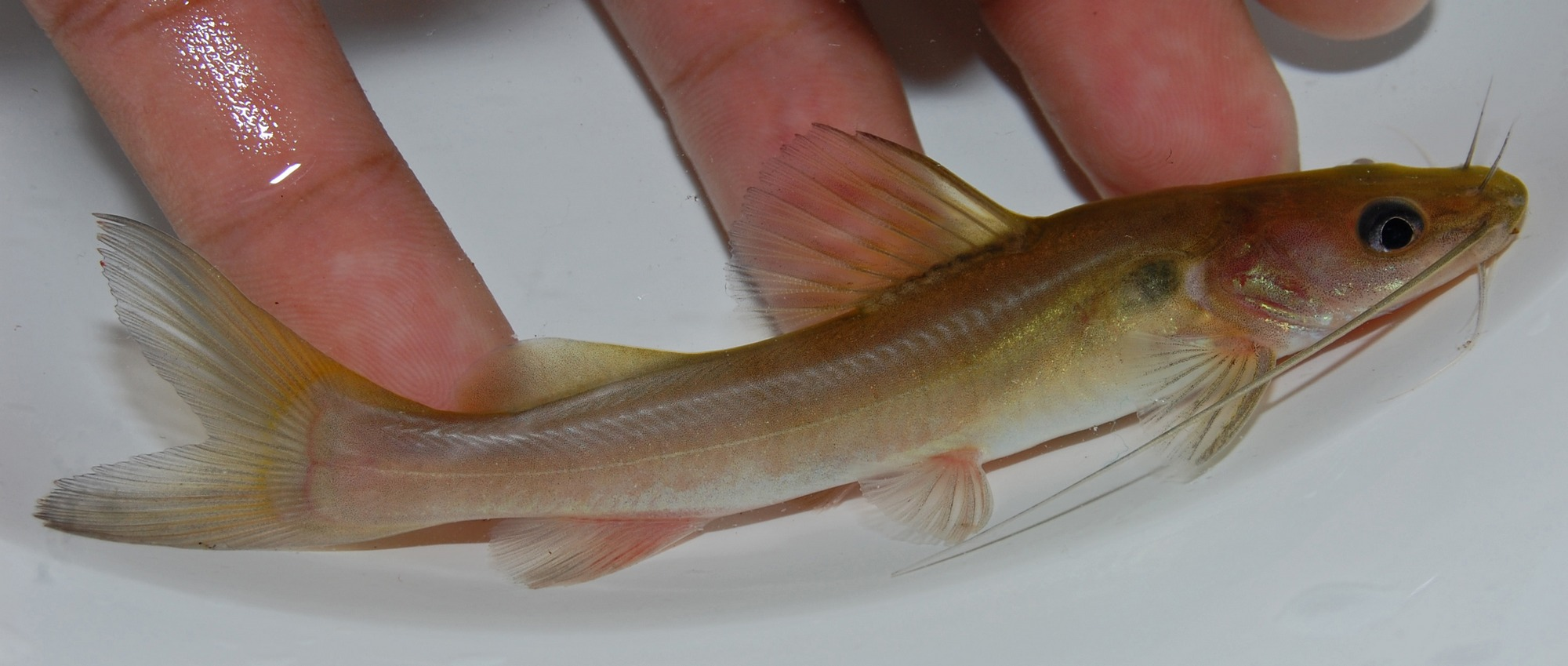 Hemibagrus planiceps (77mm SL). From Cikupret (small stream) of Cisadane drainage at Darmaga (6°34’S 106°43’E), Bogor, West Java, Indonesia